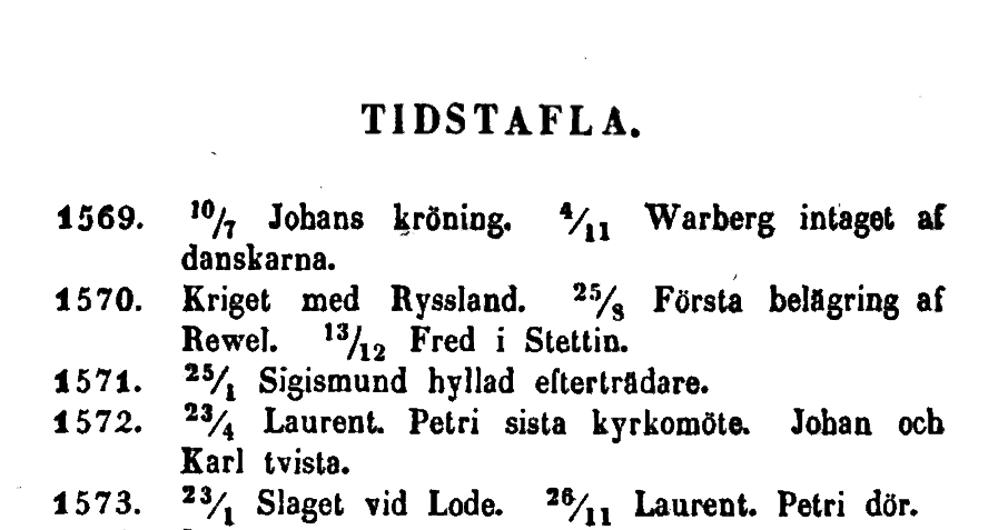 Part of a scanned book page, showing the headline "Tidstafla" (= Timeline). From Anders Fryxell (1856).